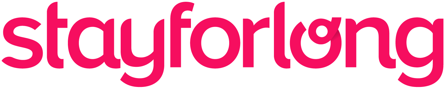 Stayforlong's logo: a online travel agency especialized in hotel bookings for 3 or more nights.